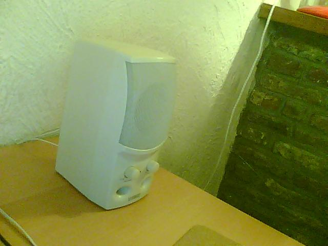 Photo of speaker for computer.